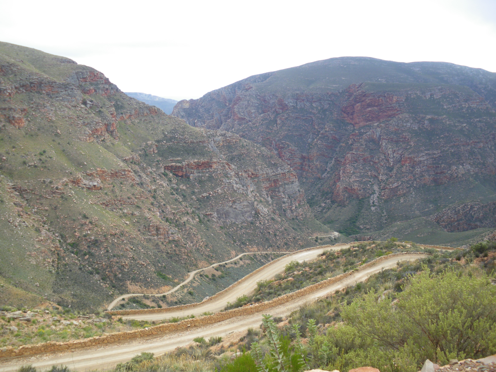 Swartberg Pass, Western Cape Province, South Africa.